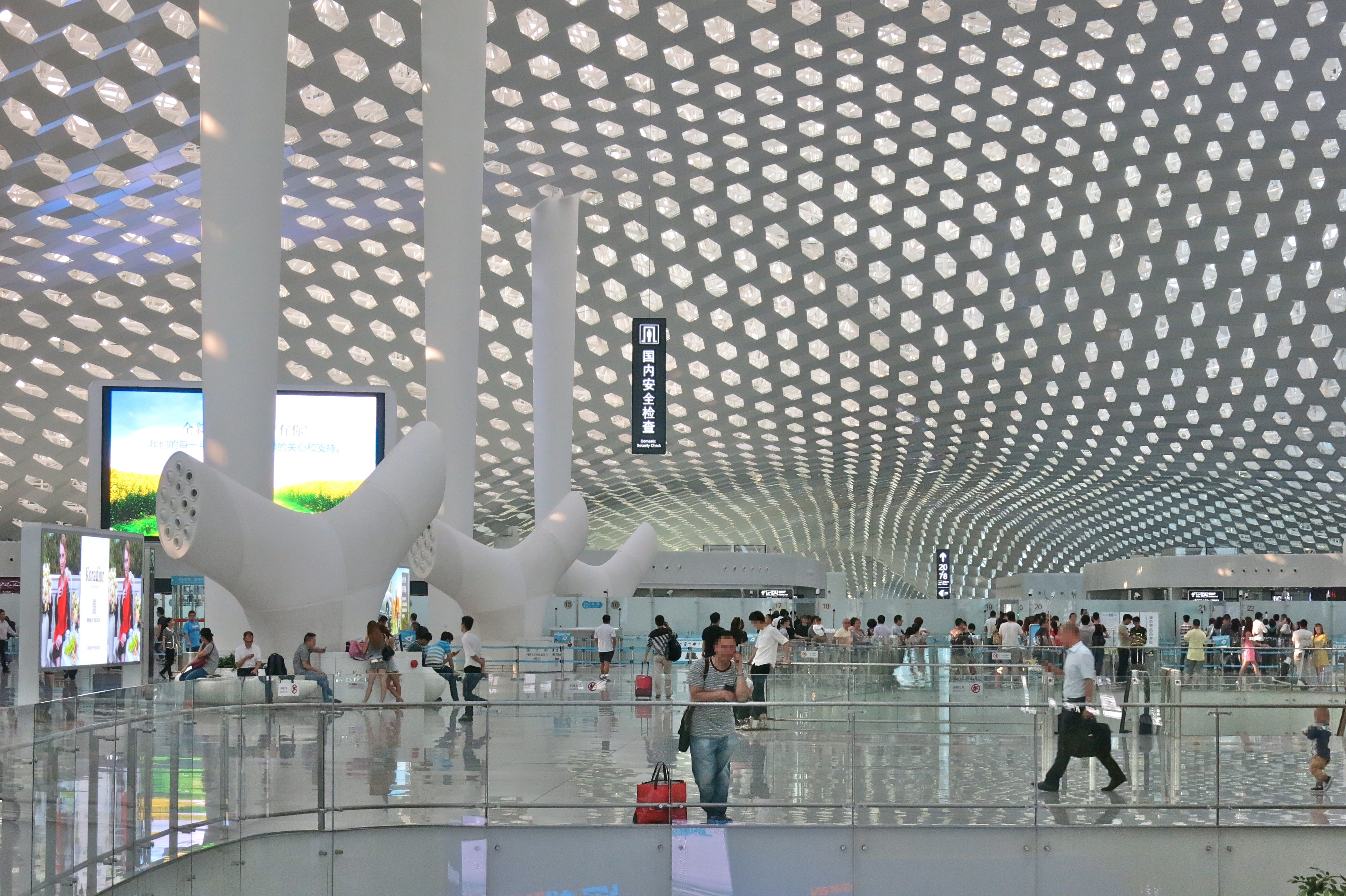 Departure Hall of Shenzhen Bao'an International Airport (Chinese: 深圳宝安国际机场) new Terminal 3, architect: Massimiliano Fuksas, Rome, 2008-2013; structure, façade and parametric design by the firm Knippers Helbig, Stuttgart.